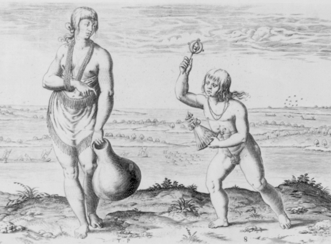 Native woman of Pomeiock carrying a clay vessel, and her daughter holding a doll and a rattle.